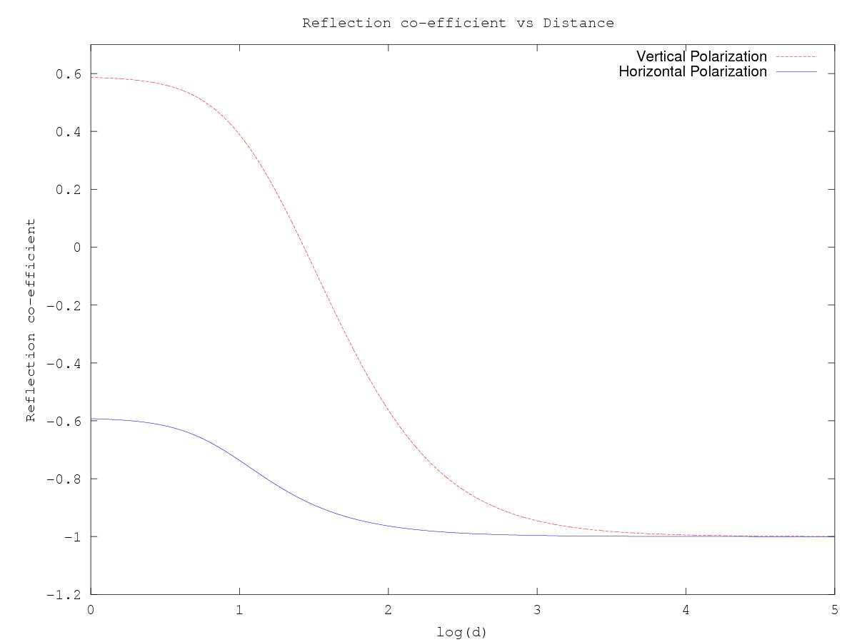 Generated using the matlab/octave code ld=0:0.001:5; d=10.^ld; ht=5; hr=2; er=15; l=sqrt( (ht+hr)^2+d.^2); sini=(ht+hr)./l; cossq=1-sini.*sini; cosi=sqrt(cossq); cossq=cosi.*cosi; zh=sqrt(er-cossq); zv=zh./er; rv=(sini-zv)./(sini+zv); rh=(sini-zh)./(sini+zh); figure plot(ld,rv,'r--',ld,rh,'b'); axis([0 5 -1.2 0.7]); hleg1 = legend('Vertical Polarization','Horizontal Polarization'); title('Reflection co-efficient vs Distance '); xlabel('log(d)'); ylabel('Reflection co-efficient'); print -deps graph.eps compiled using compiler